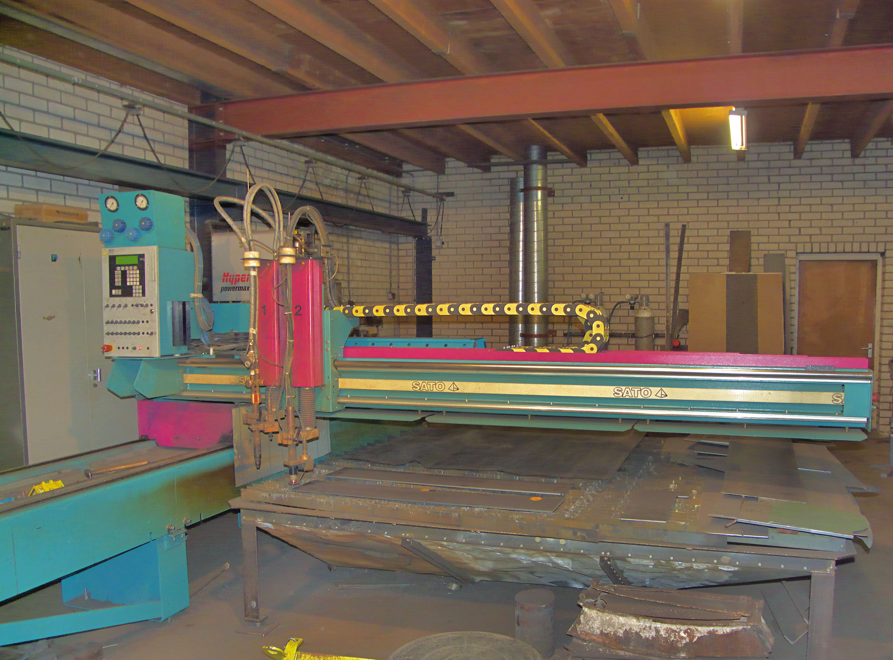 Plasma cutter Satronik C 2500